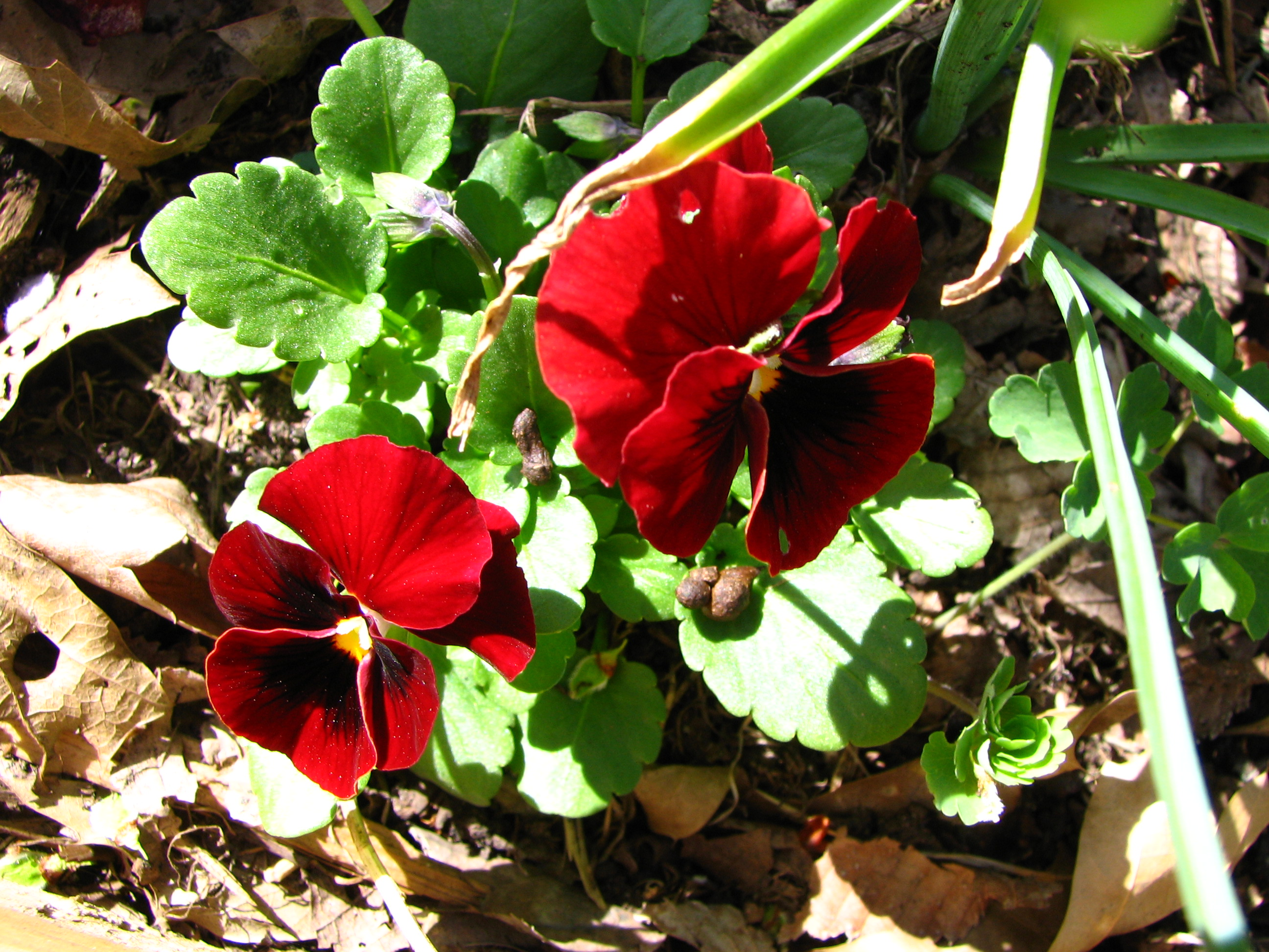 Viola tricolor from OH, my work.